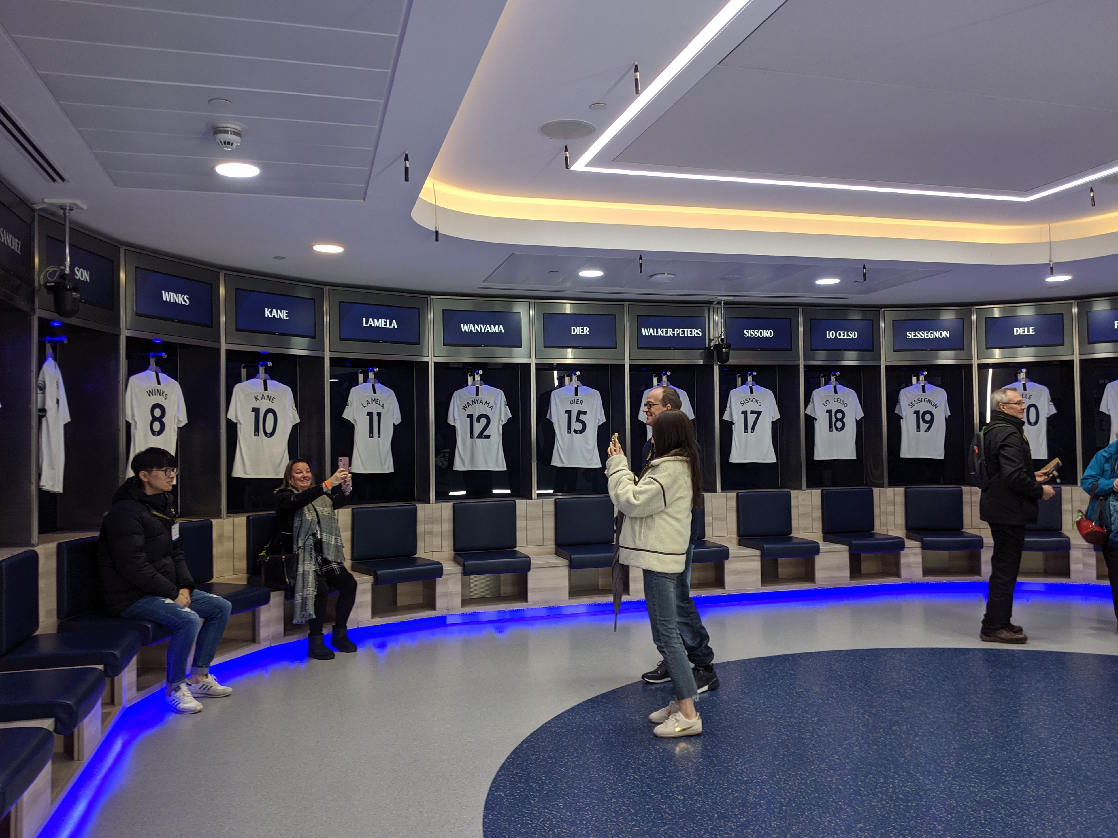 View of the home dressing room at Tottenham Hotspur Stadium